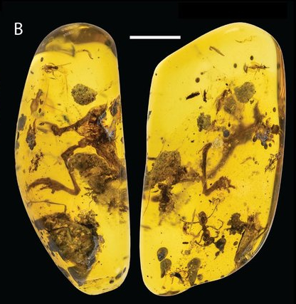 Photograph images of four fossil frog specimens referred to Electrorana, including the holotype (A; DIP-L-0826) and three additional specimens (B: DIP-V-16119; C: DIP-V-16127; D: DIP-V-16121). Specimens in (B) and (D) are presented with two views of the amber specimen and the oval in (D) indicates the presence of the anuran specimen. Scale bars equal 5 mm.